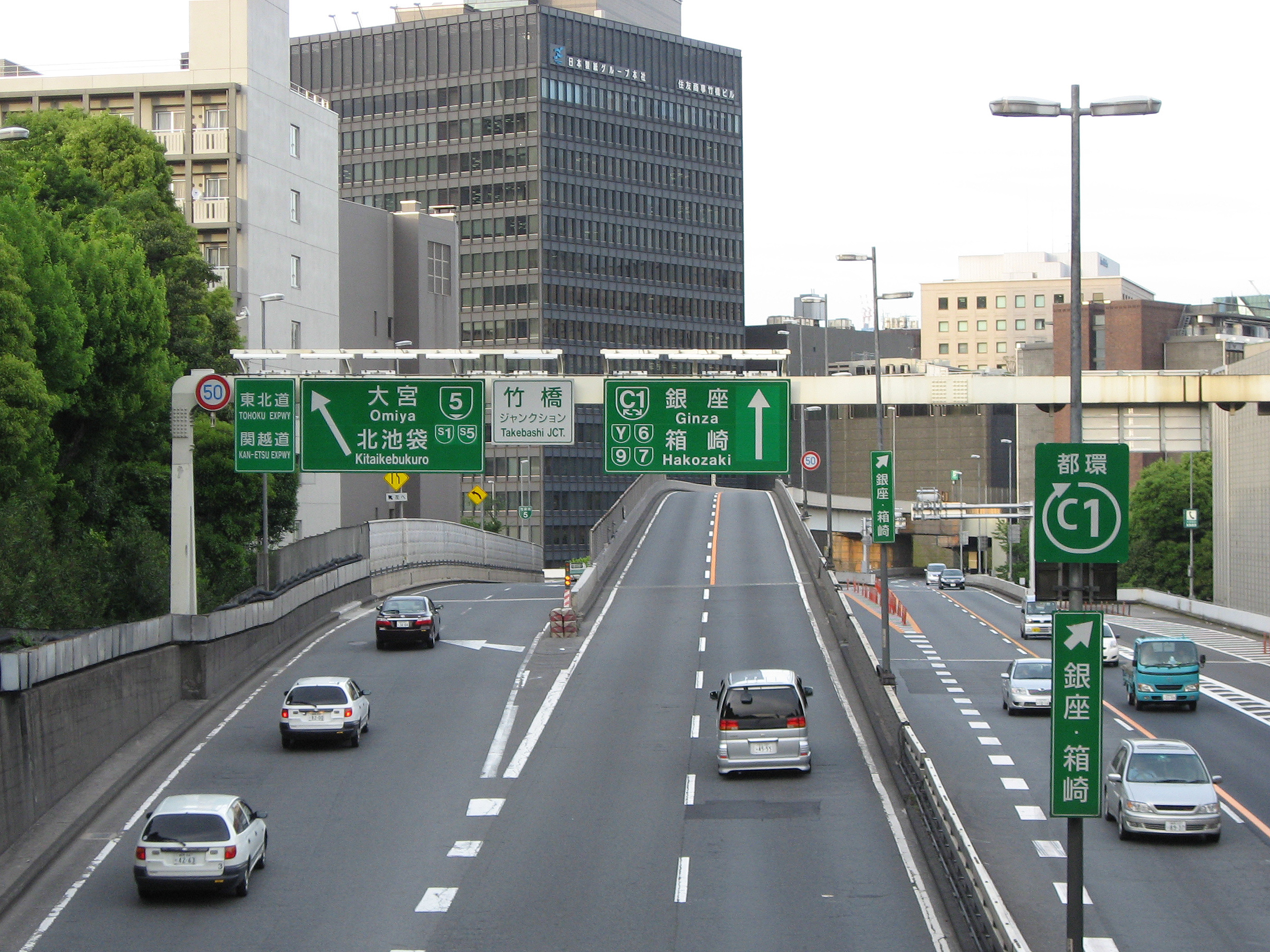 Takebashi Junction on the Inner Circular Route (Shuto Expressway) in Chiyoda-ku, Tokyo, Japan, photographed from the west side